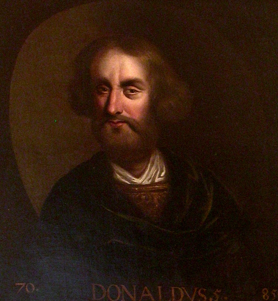 Portrait in Holyrood Palace of Donald MacAlpin, king of Scotland from 858-862.